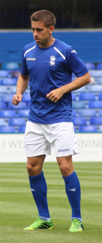 Olly Lee vs Hull City in 2013 pre-season.